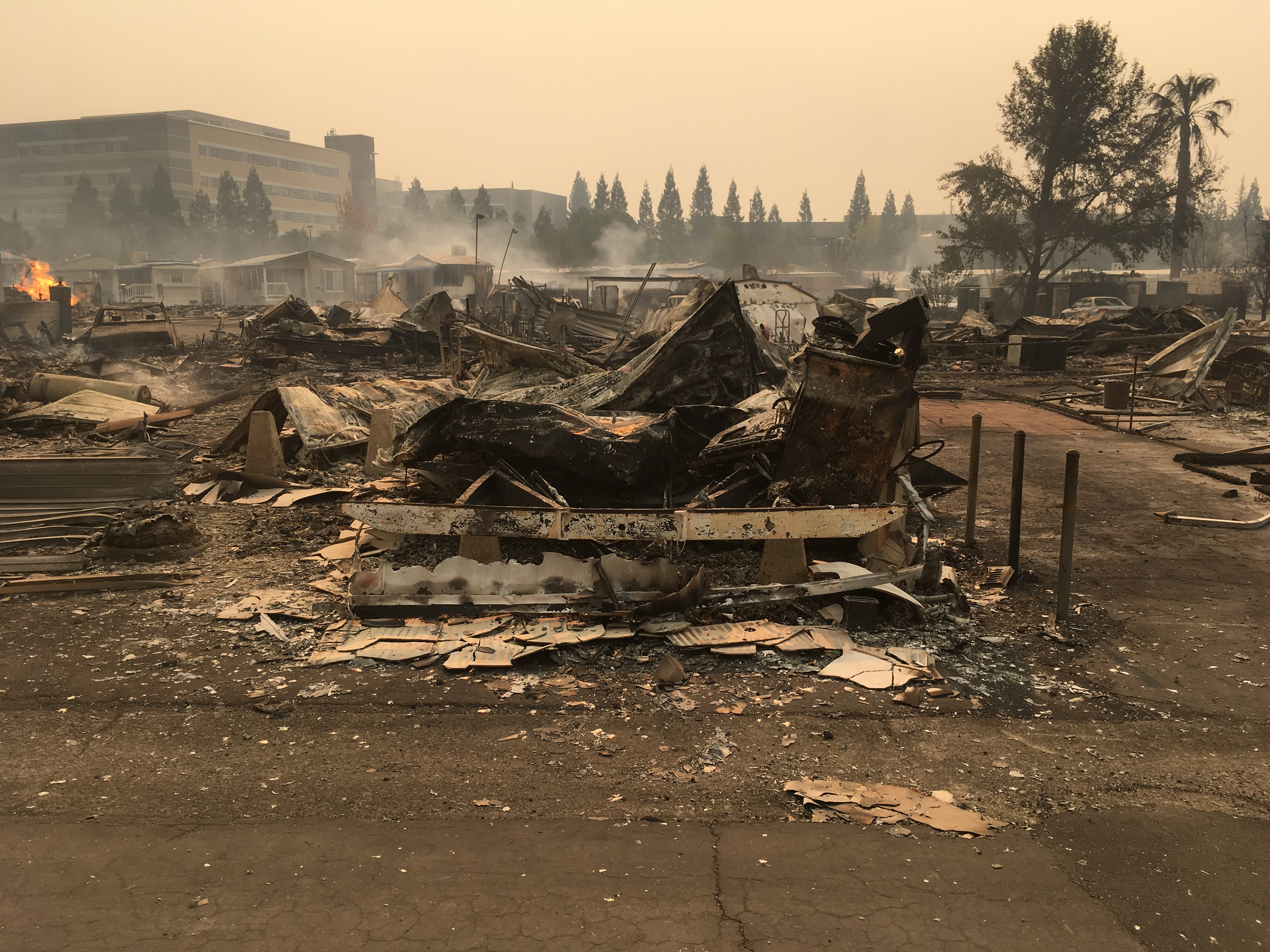 Still-smoldering remains of the Journey's End Mobile Home Park (Tubbs Fire, Santa Rosa, California). The undamaged Kaiser Permanente Santa Rosa Medical Center stands in the background.